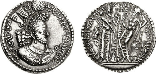 Hormizd I Kushanshah Merv mint. AR Drachm (4.23 g, 12h). MRWY (Merv mint). "The Mazda worshipper, the divine Hormizd the great Kushan king of kings" in Pahlavi, crowned bust right, wearing lion headdress; annulet above left shoulder / "Exalted god, Hormizd the great Kushan king of kings" in Pahlavi, Hormizd standing right, holding investiture wreath over altar in right hand and raising left hand in benedictional gesture to Anahita rising left from throne, holding investiture wreath in raised right hand and sceptre in left; MRWY between.